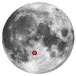 Description: Location of the Albategnius crater on the Moon. The red mark also shows the proximity of the craters Klein, Parrot, Vogel, Argelander, Airy, Burnham, and Ritchey. Source: This is a modified version of the photo obtained from the NASA Planetary Photojournal. It was modified by RJHall. Width: 150 pixels Height: 150 pixels